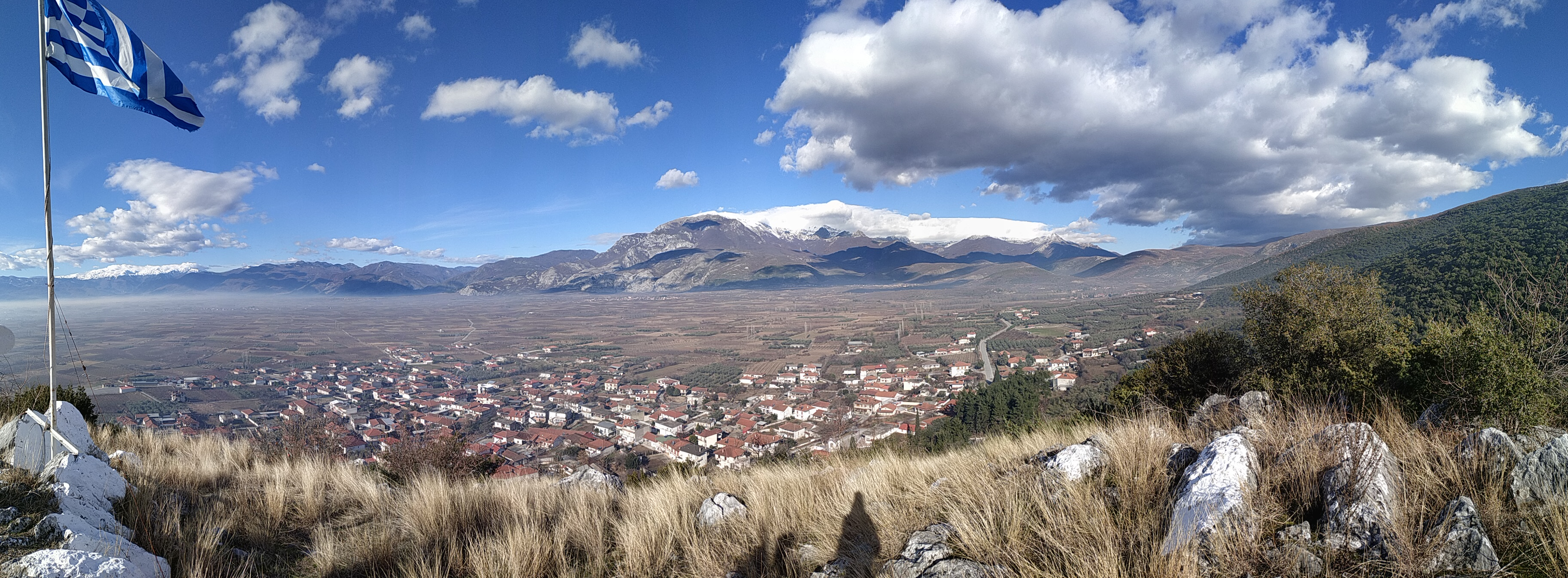 This is a photography of Natura 2000 protected area with ID GR1240002